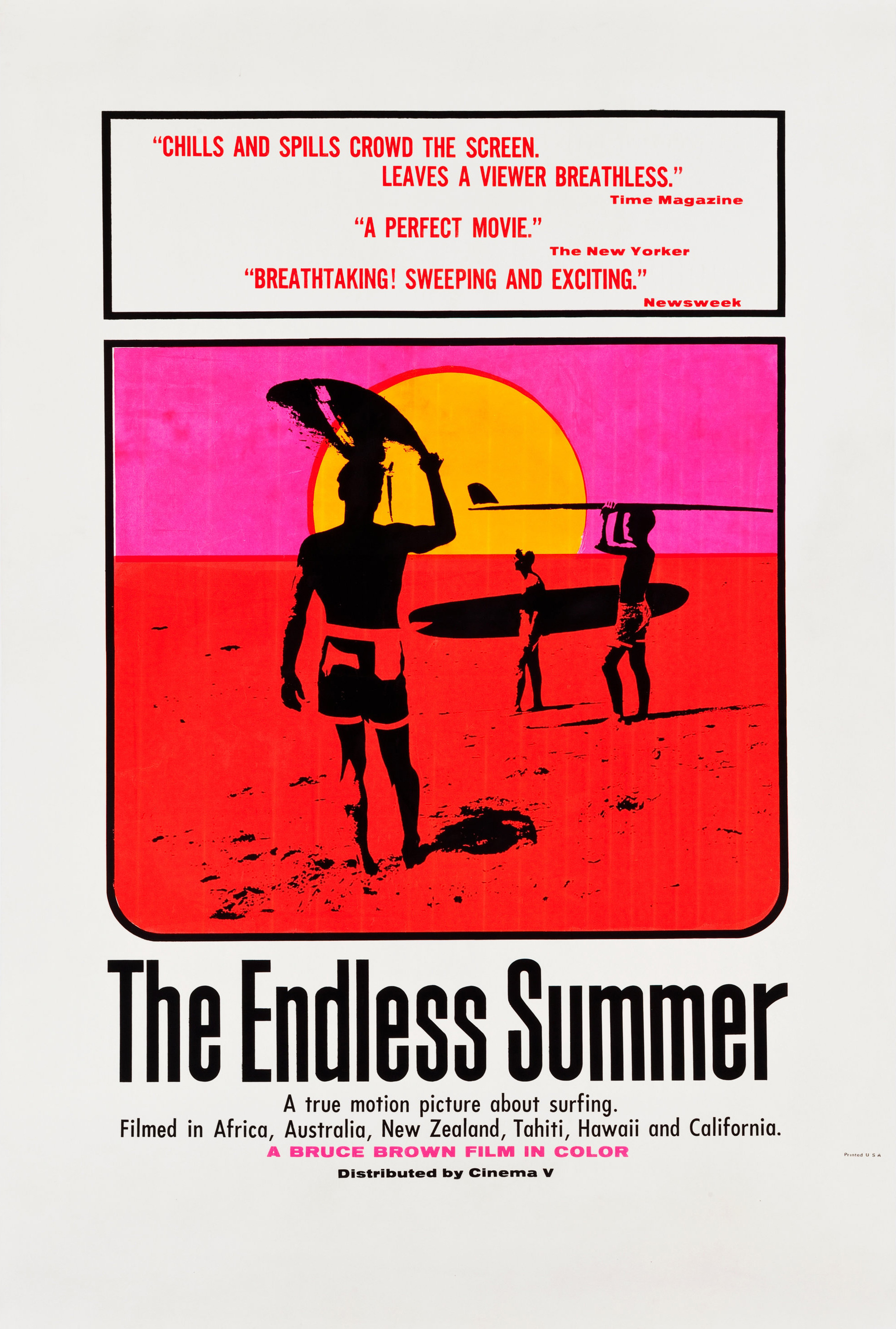 Theatrical release poster for the 1966 American surf movie The Endless Summer.